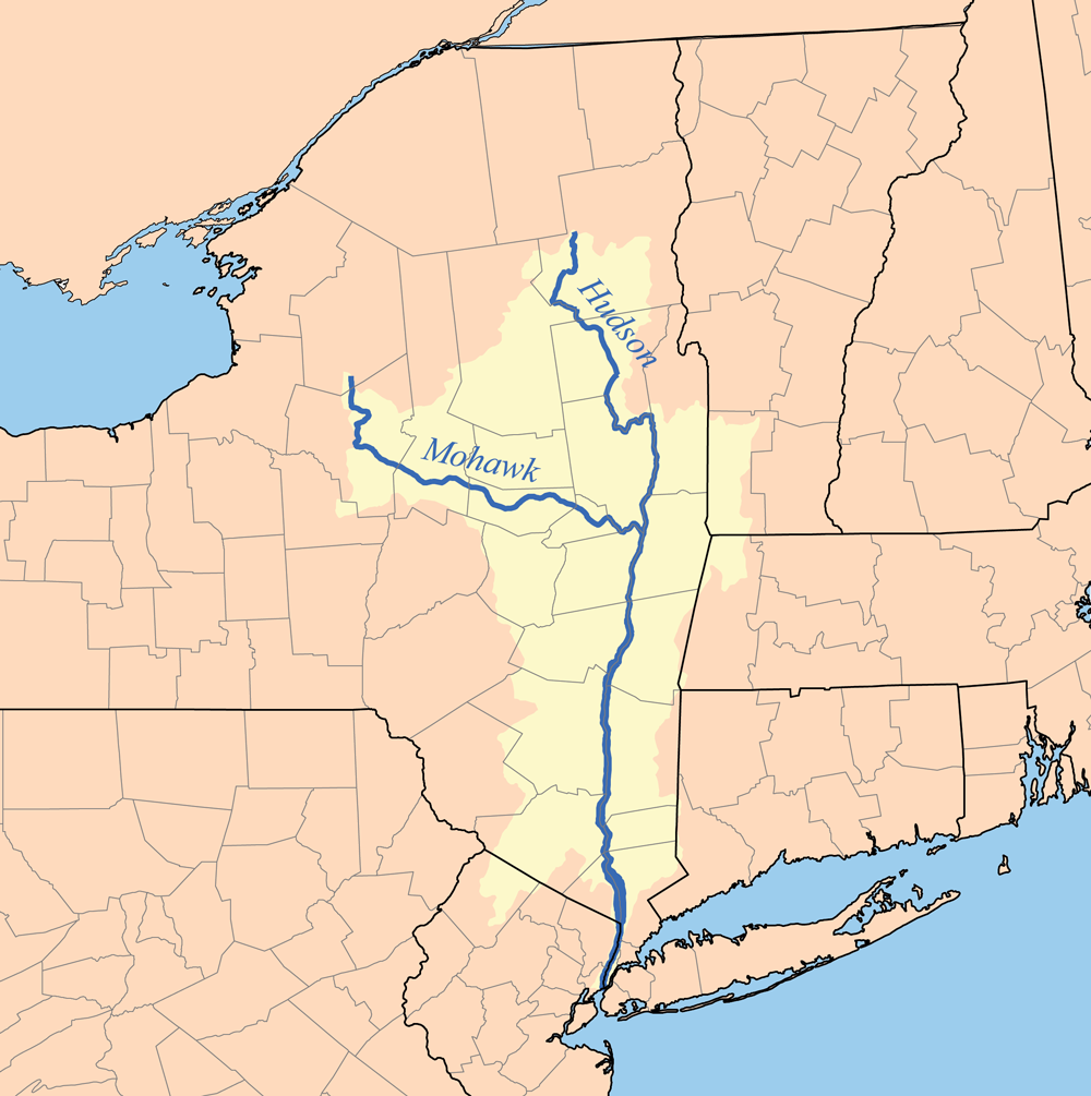 This is a map of the Hudson River Watershed I made using USGS data, includes the Mohawk River.